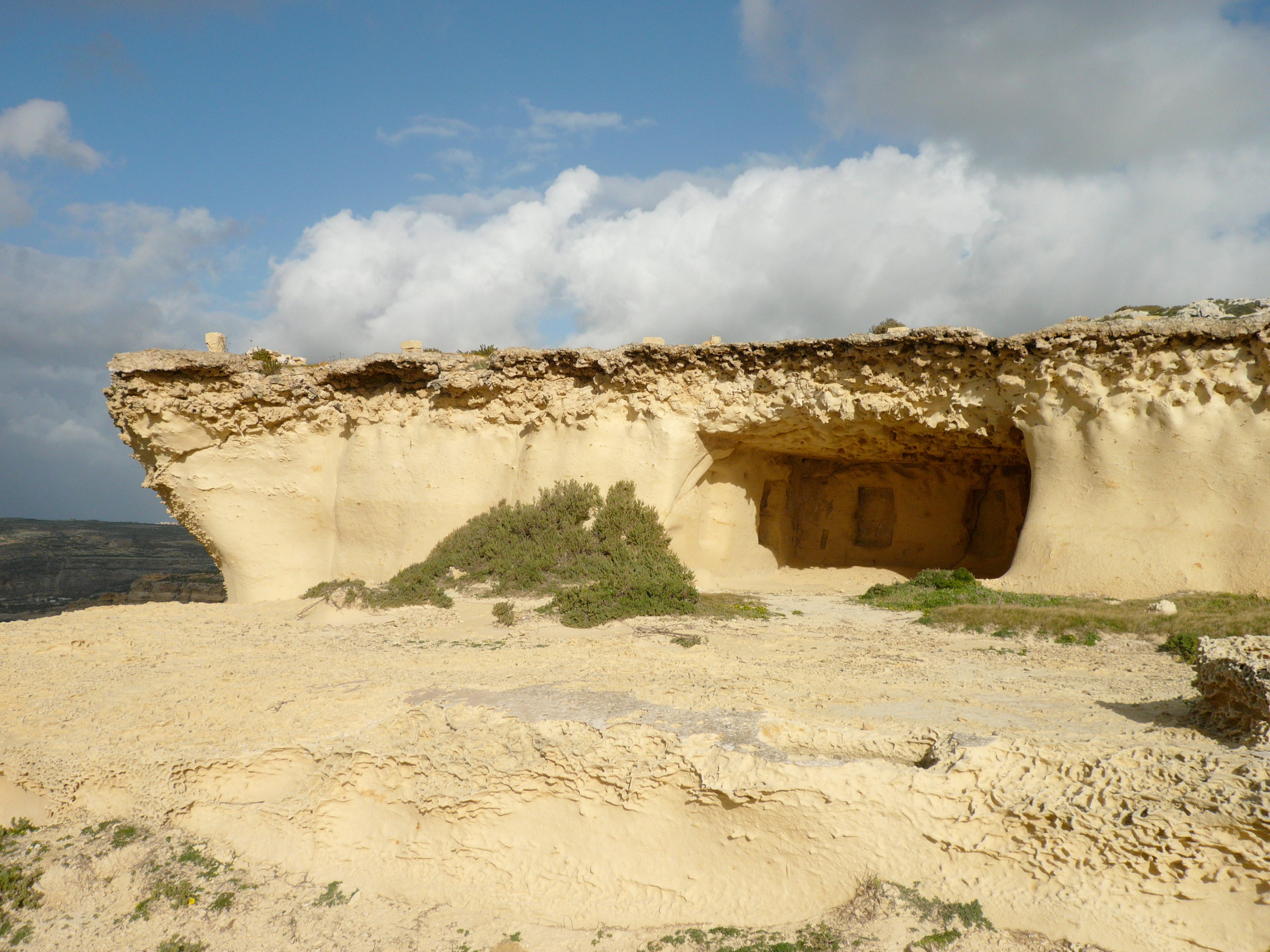 Sanctuary of the Phoenician goddess Tanit on the West coast of Gozo (Malta)